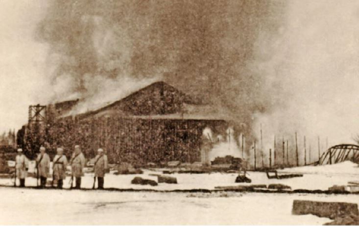 1918 Finnish Civil War: Rautu railway station on fire after the Battle of Rautu, 5 April 1918.